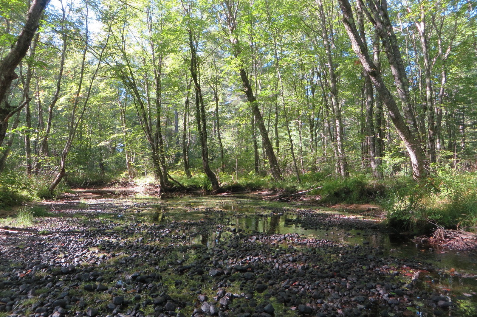 The West Branch (New Hampshire), a tributary of Ossipee Lake, near Ossipee Lake Road crossing